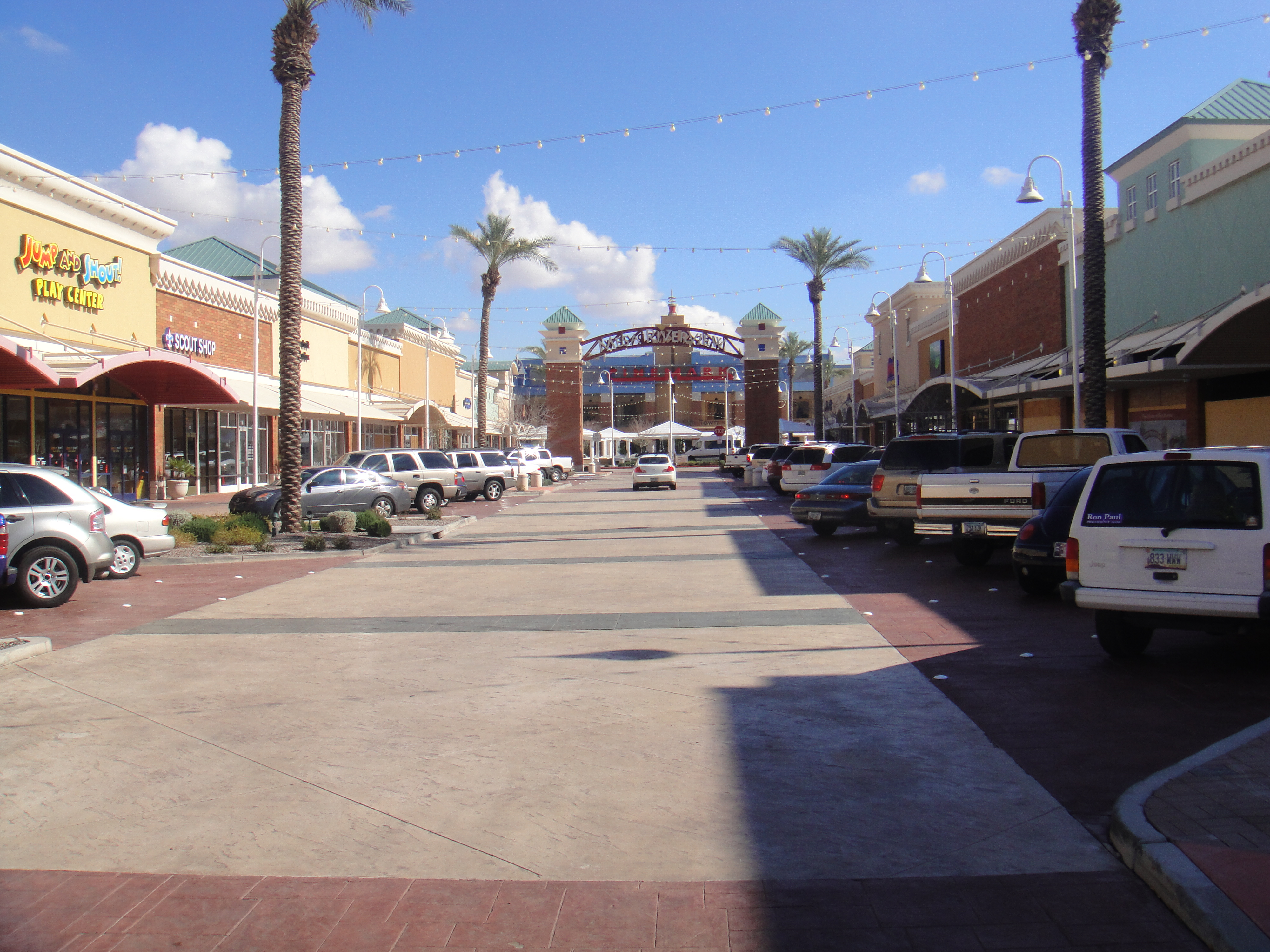 Photo looking east at the Mesa Riverview shopping center in Mesa, Arizona